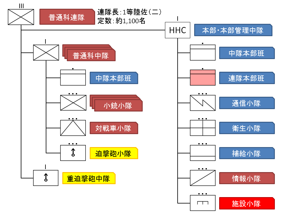 Organization of the Infantry Regiment of the Japan Ground Self-Defense Force.